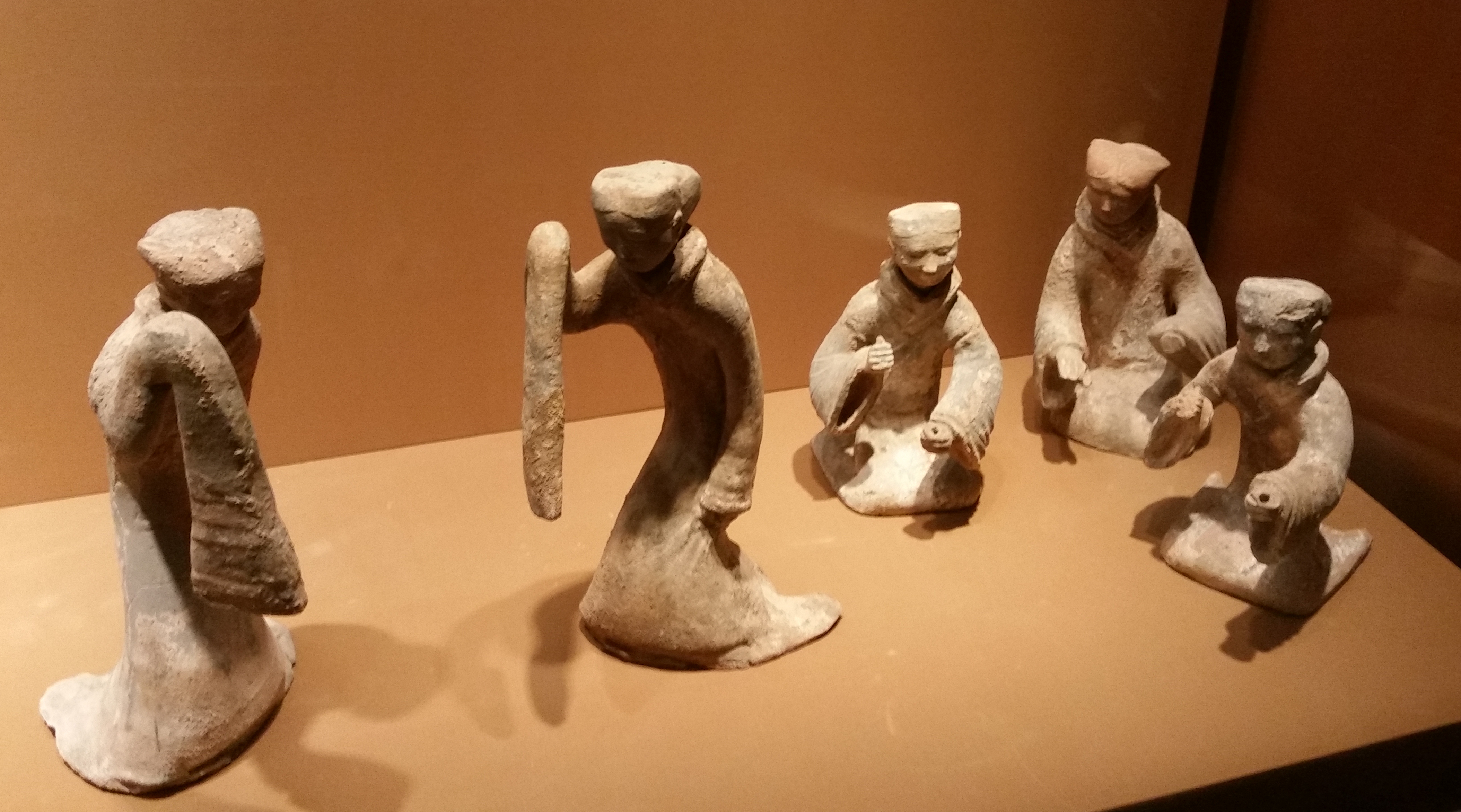 Nanjing Museum - Pottery figurines dancing and sitting - Western Han